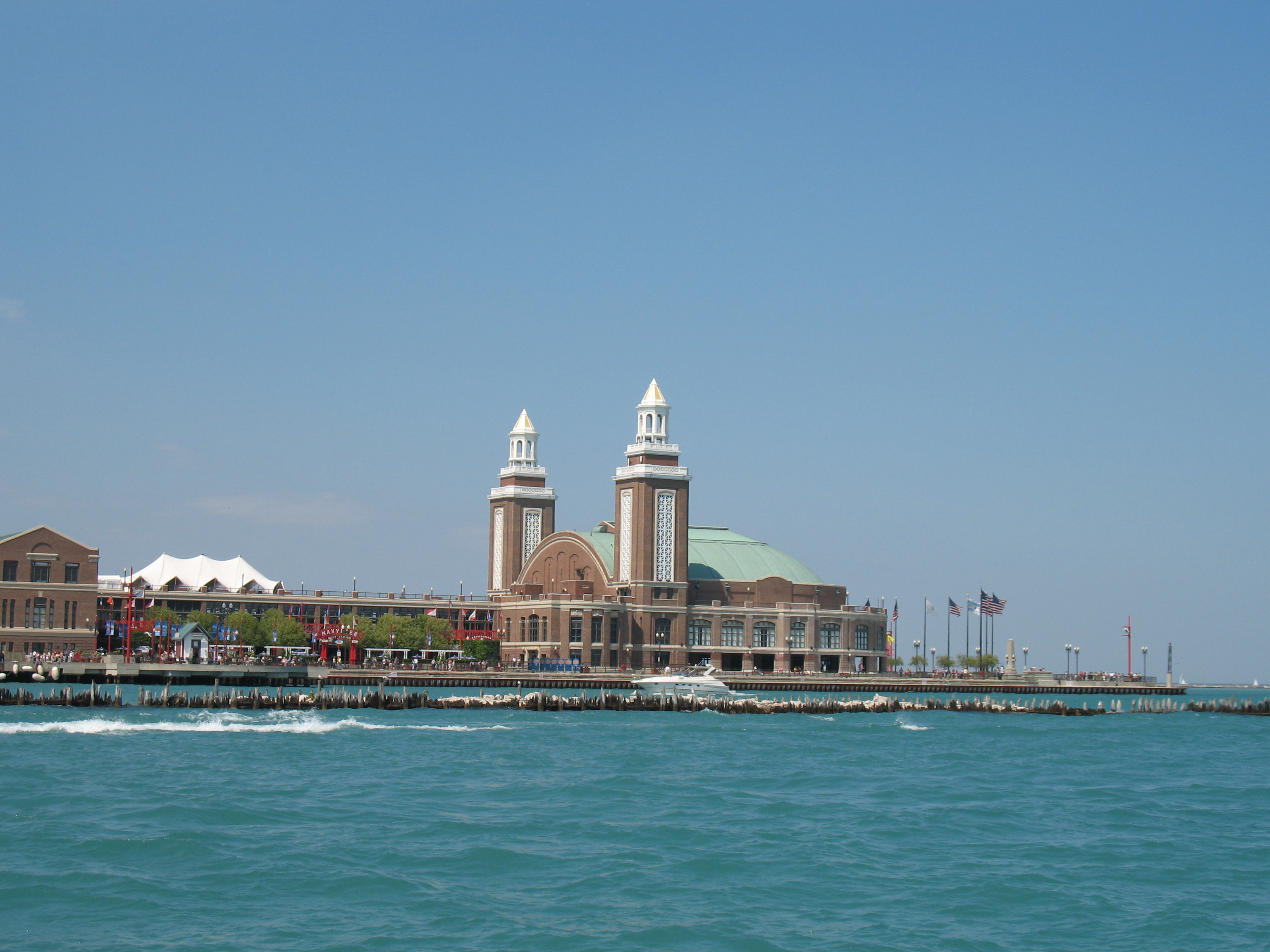 Navy Pier as seen from the convergence of the Chicago River and Lake Michigan. Navy Pier Auditorium.